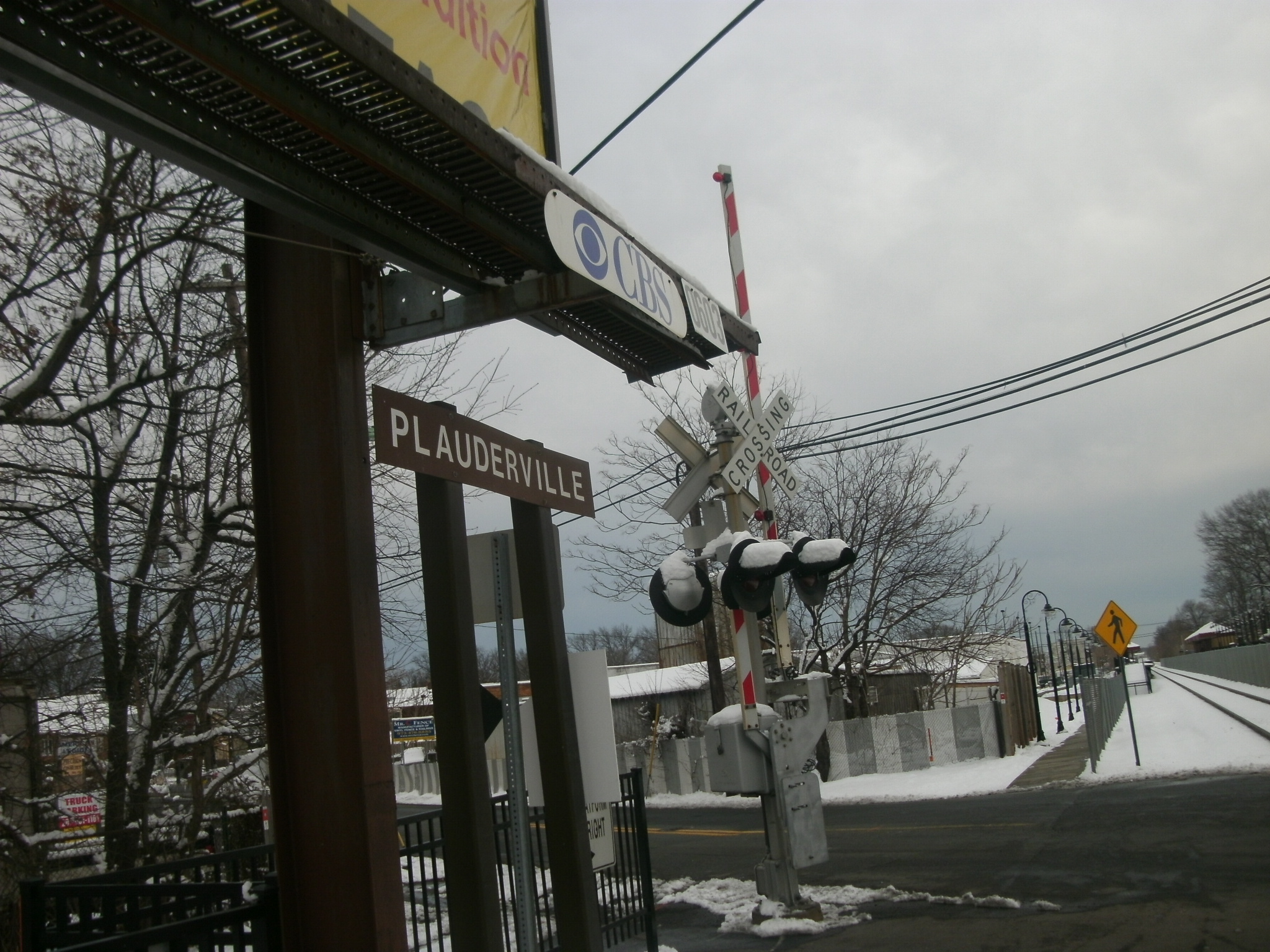 An old sign for Plauderville Station on New Jersey Transit's Bergen County Line. This old signage was faded out by the 1990s in favor of new black signage.